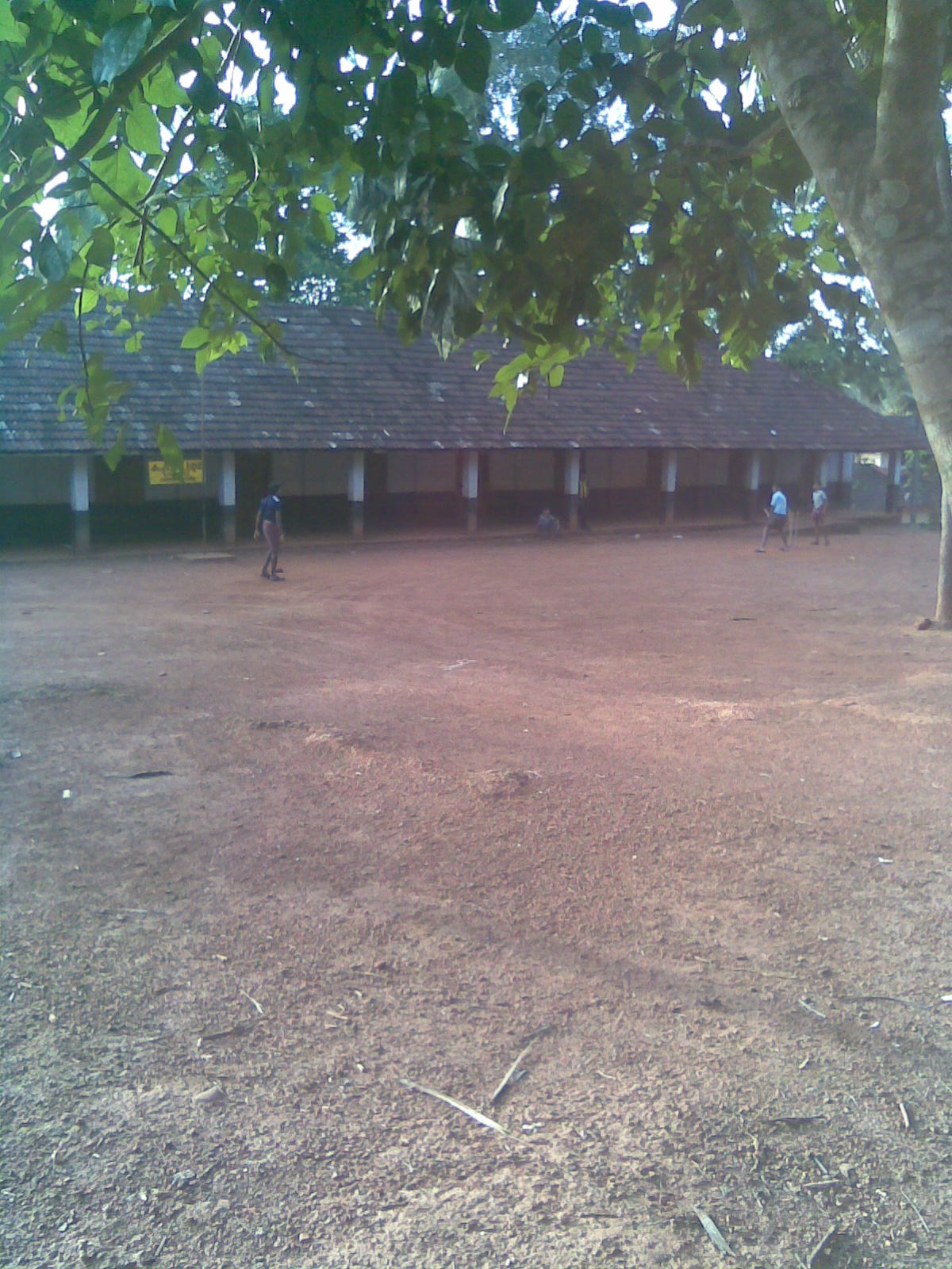 Mudikkode